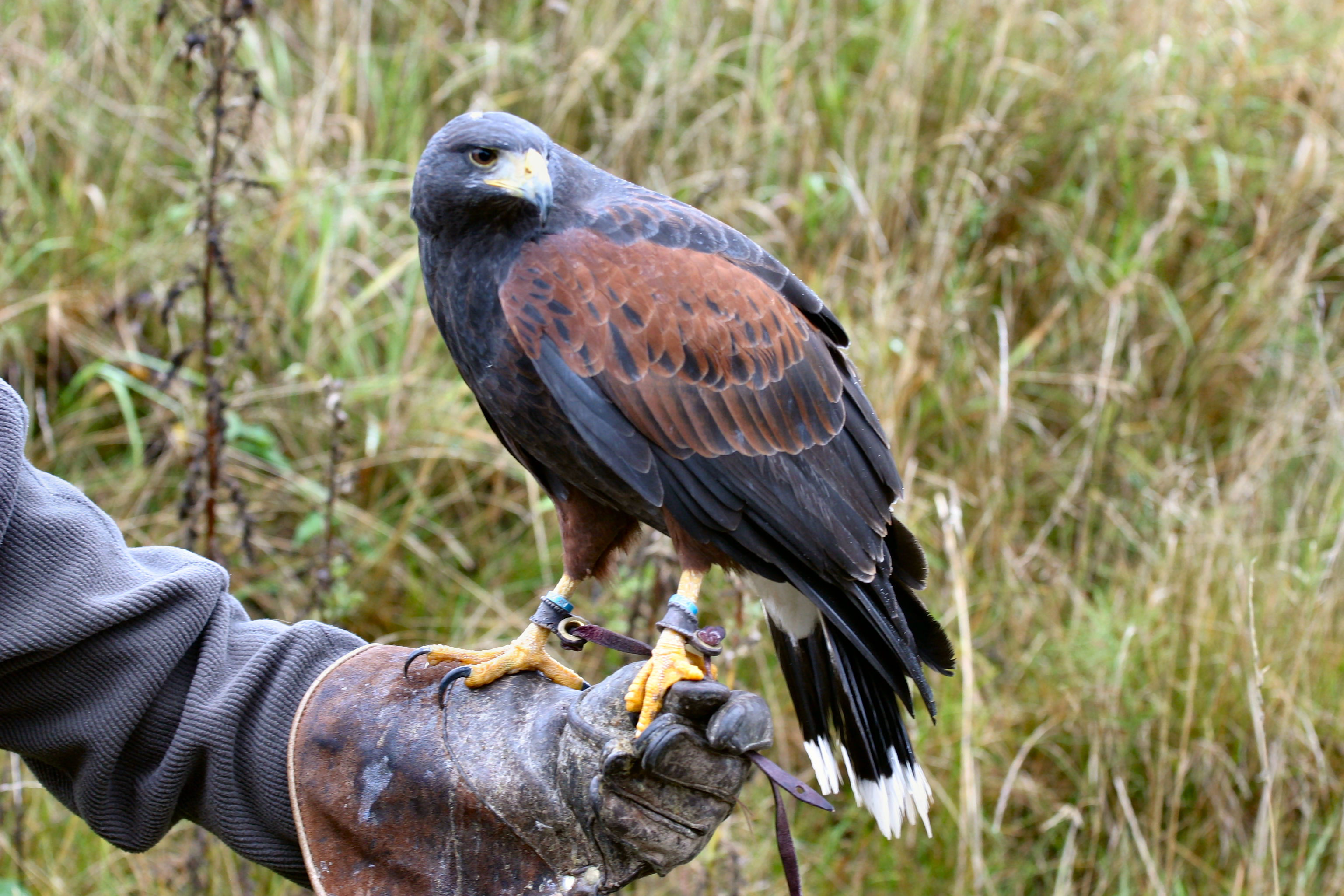 A six-year-old female Harris' Hawk (Parabuteo unicinctus) named Jenny.